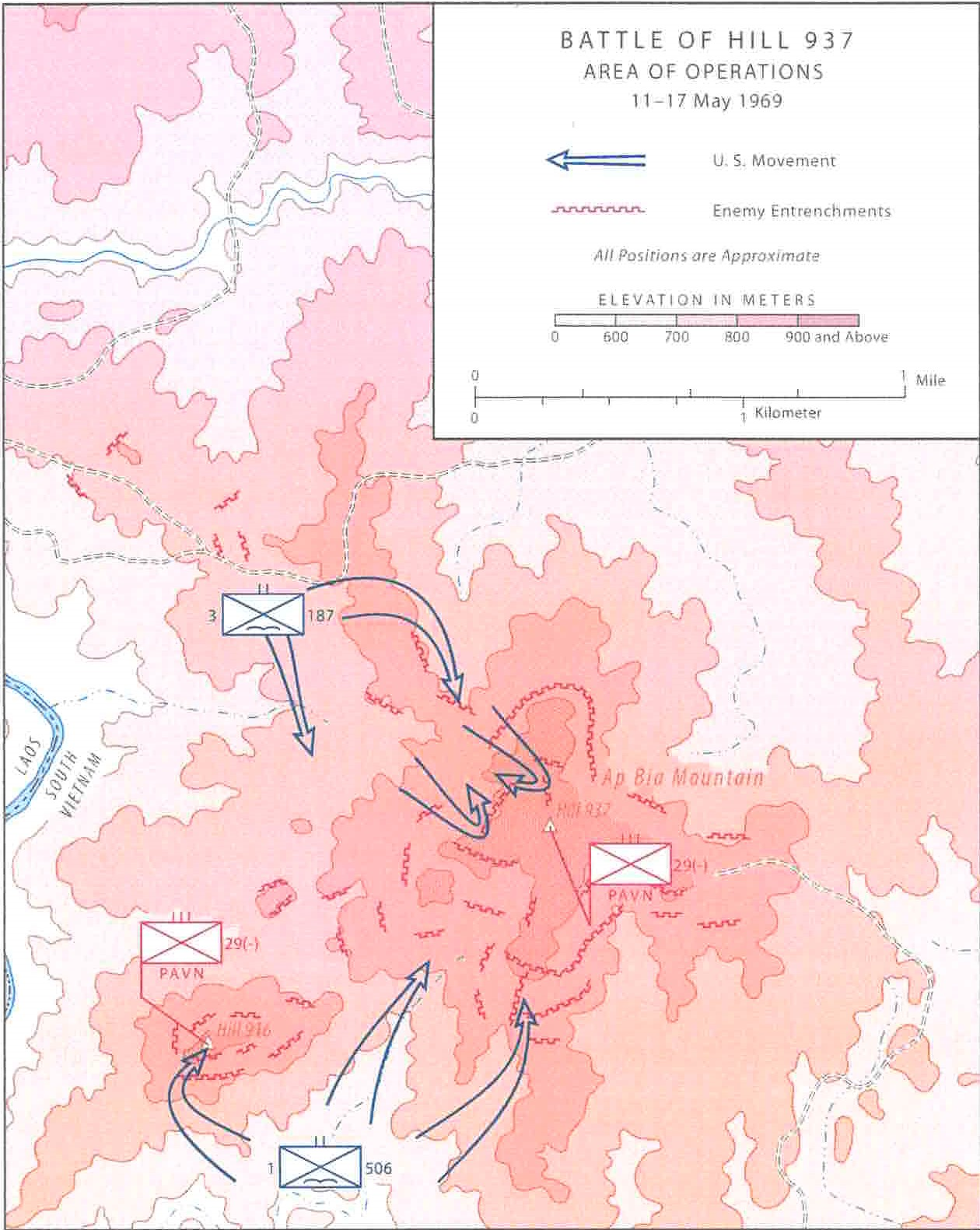 Battle of Hamburger Hill, 11-17 May 1969